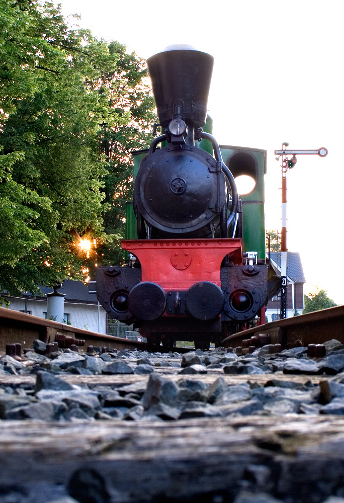 narrow-gauge railway